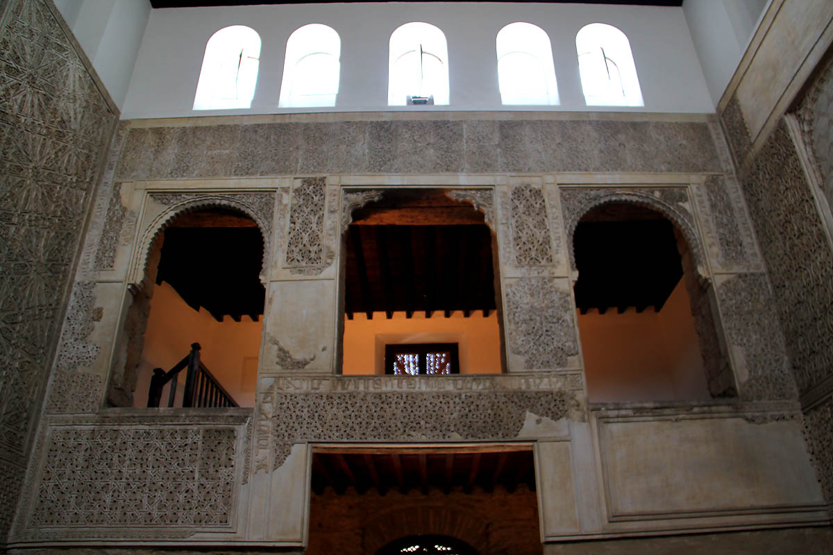 Sinagoga de Córdoba